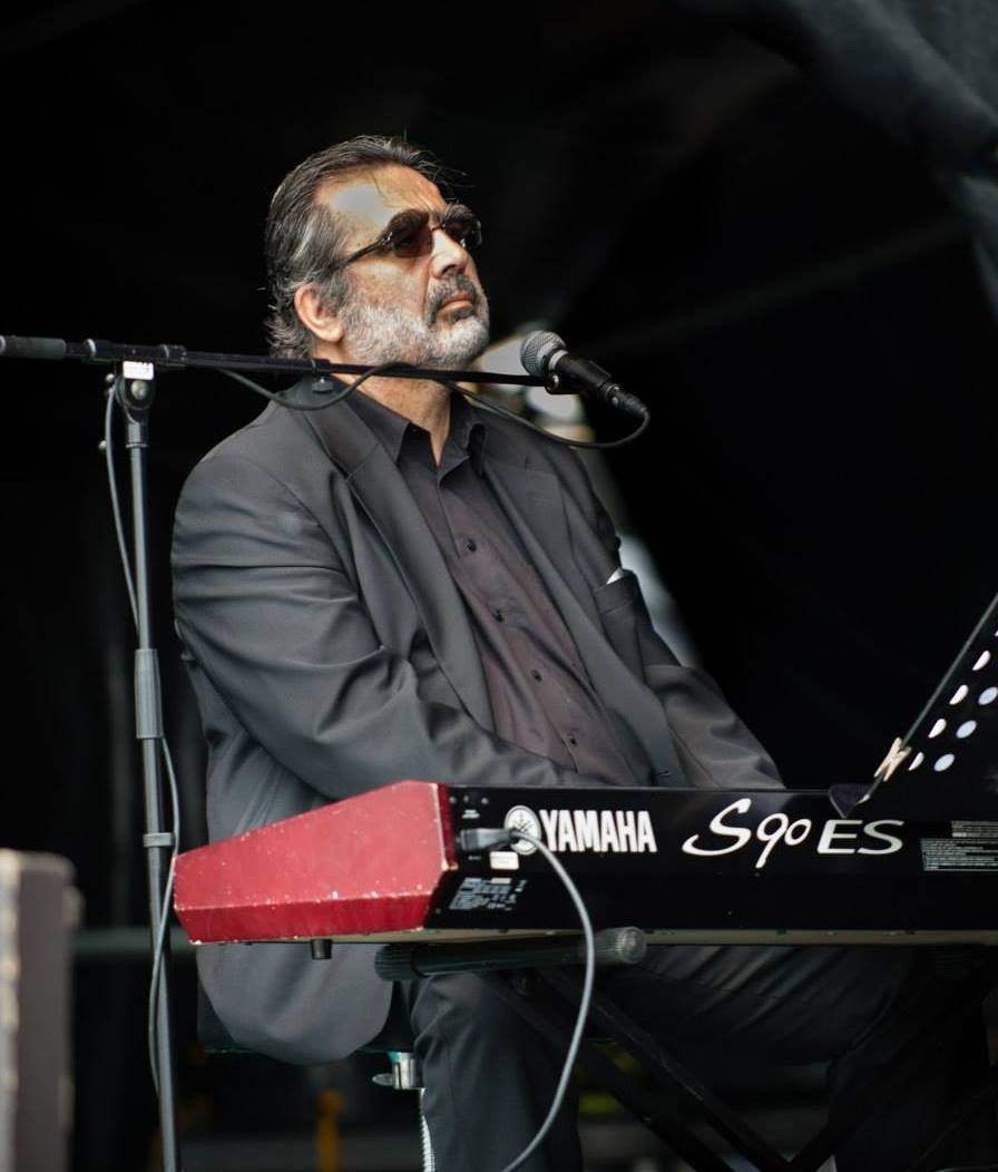 Senatin Square, Helsinki